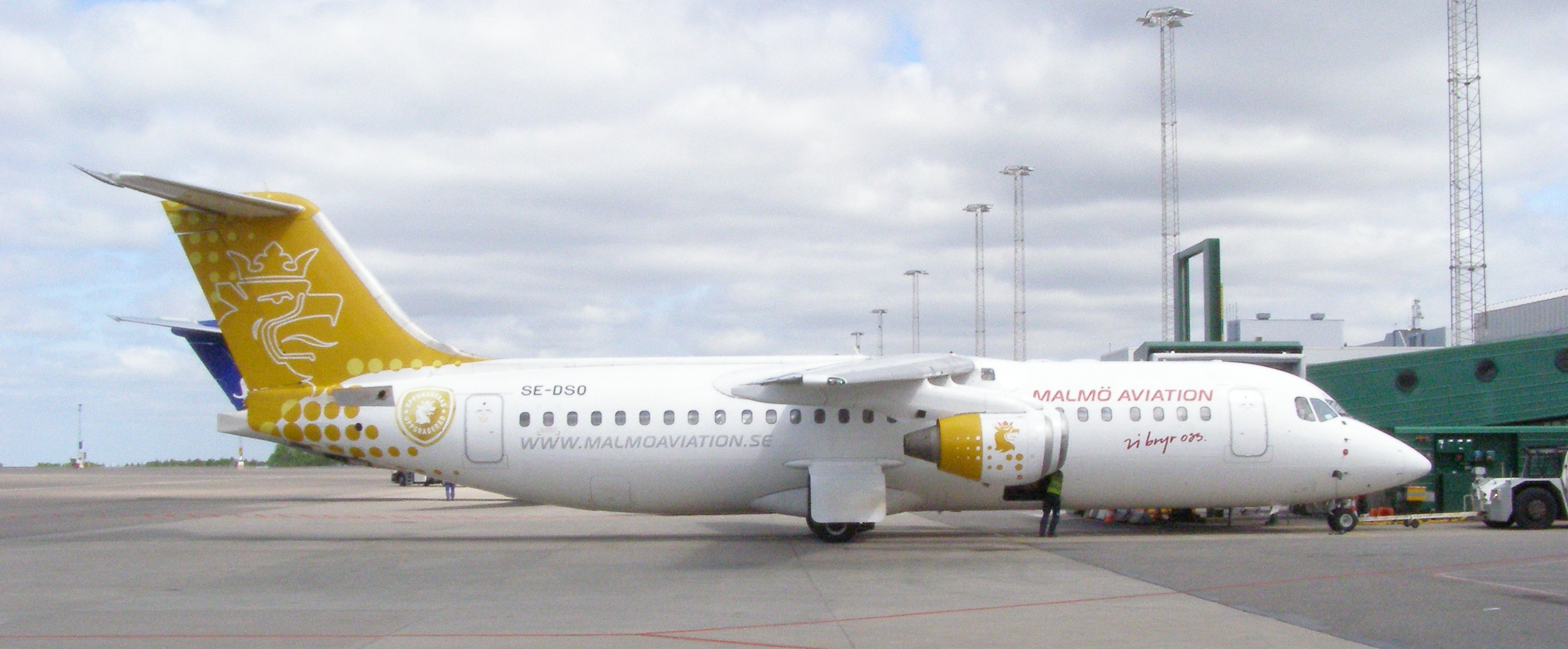 Göteborg-Landvetter Airport - Malmö Aviation Avro 146-RJ100 SE-DSO